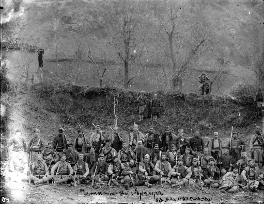 Argir Manasiev's band.